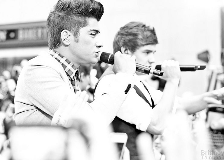 One Direction, The Today Show, 13 March 2012, Payne and Malik performing "What Makes You Beautiful".